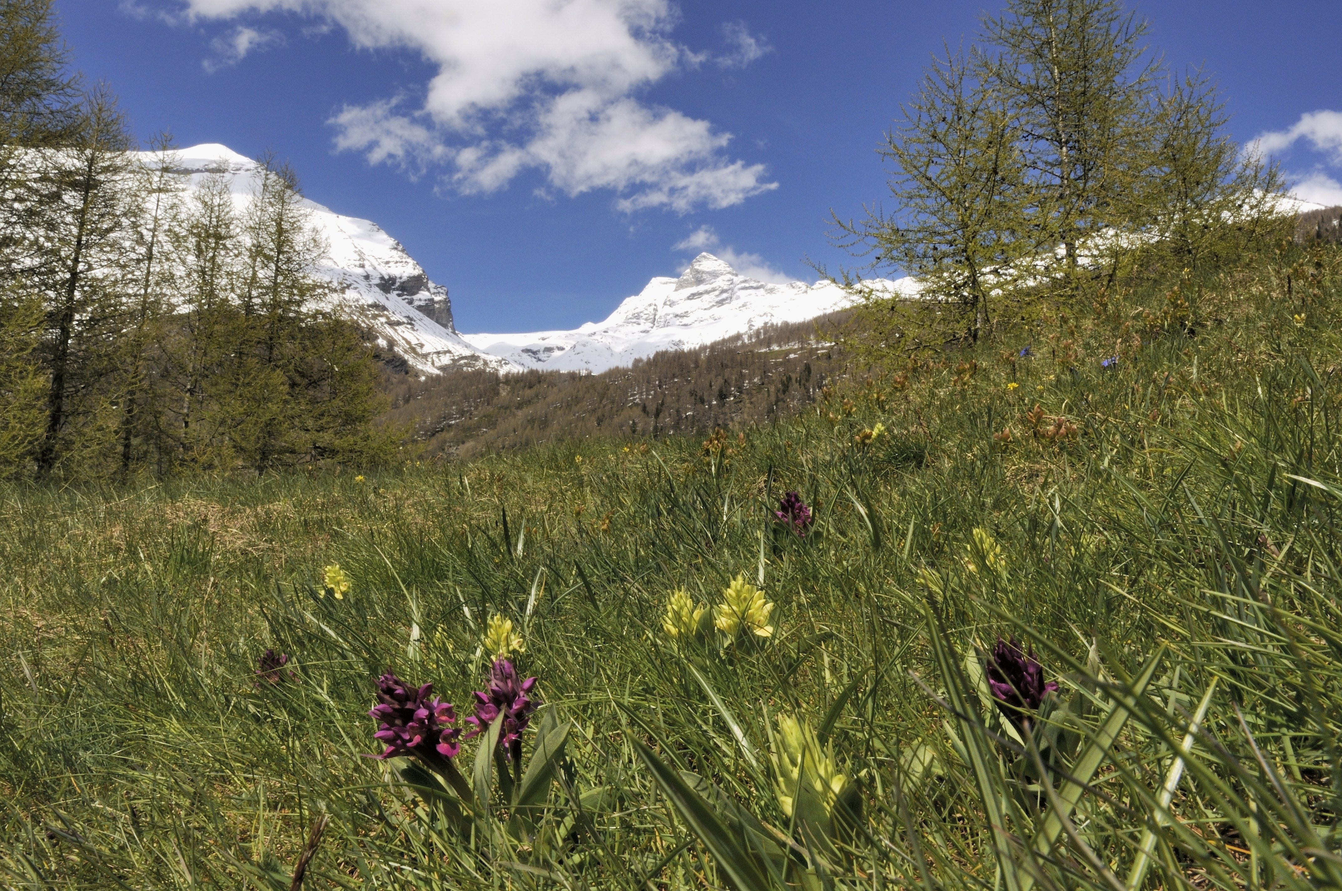 Dactylorhiza sambucina, Simplon Pass/Valais/Switzerland